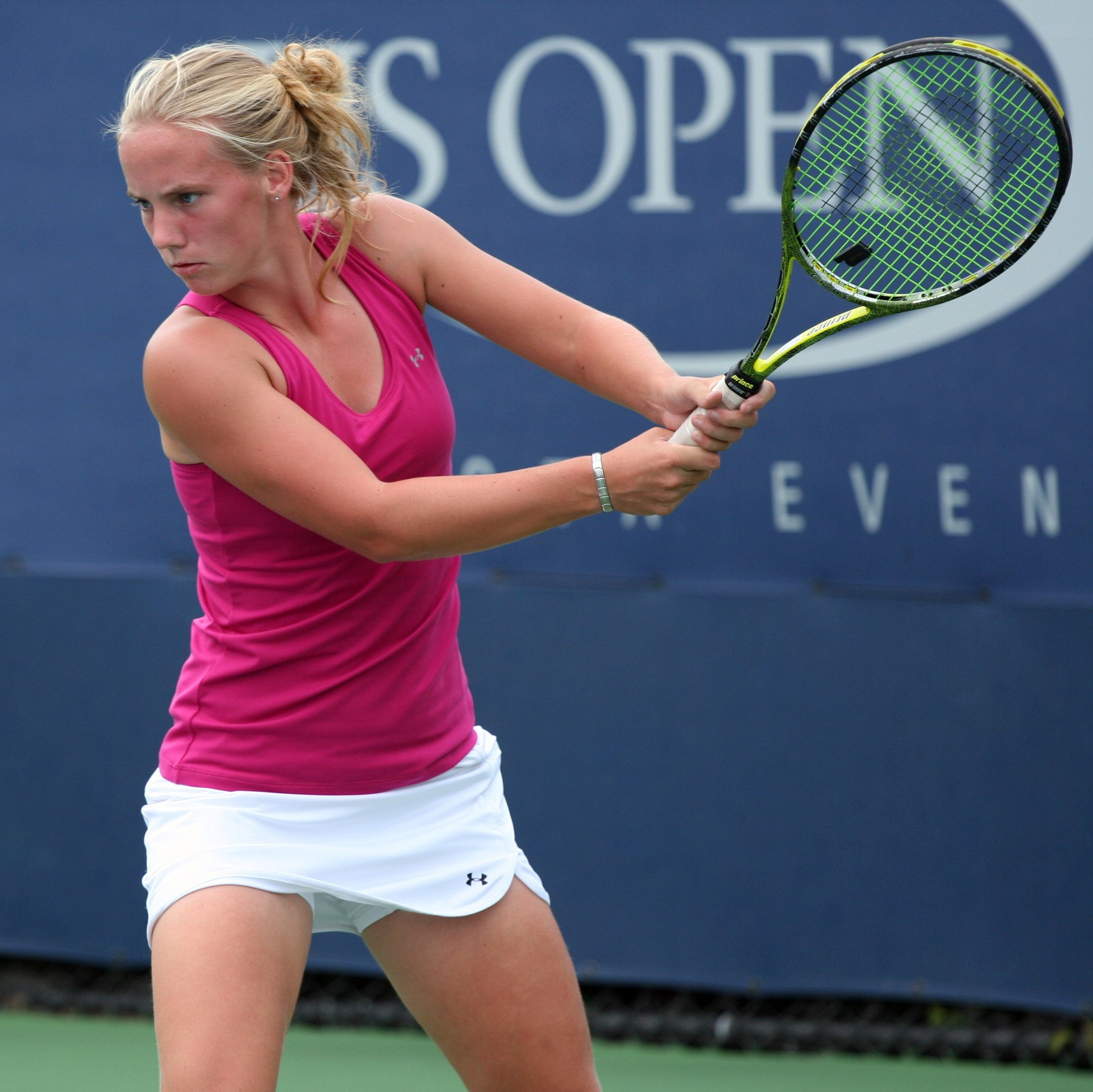 U.S. Open Juniors – Sept. 8, 2009